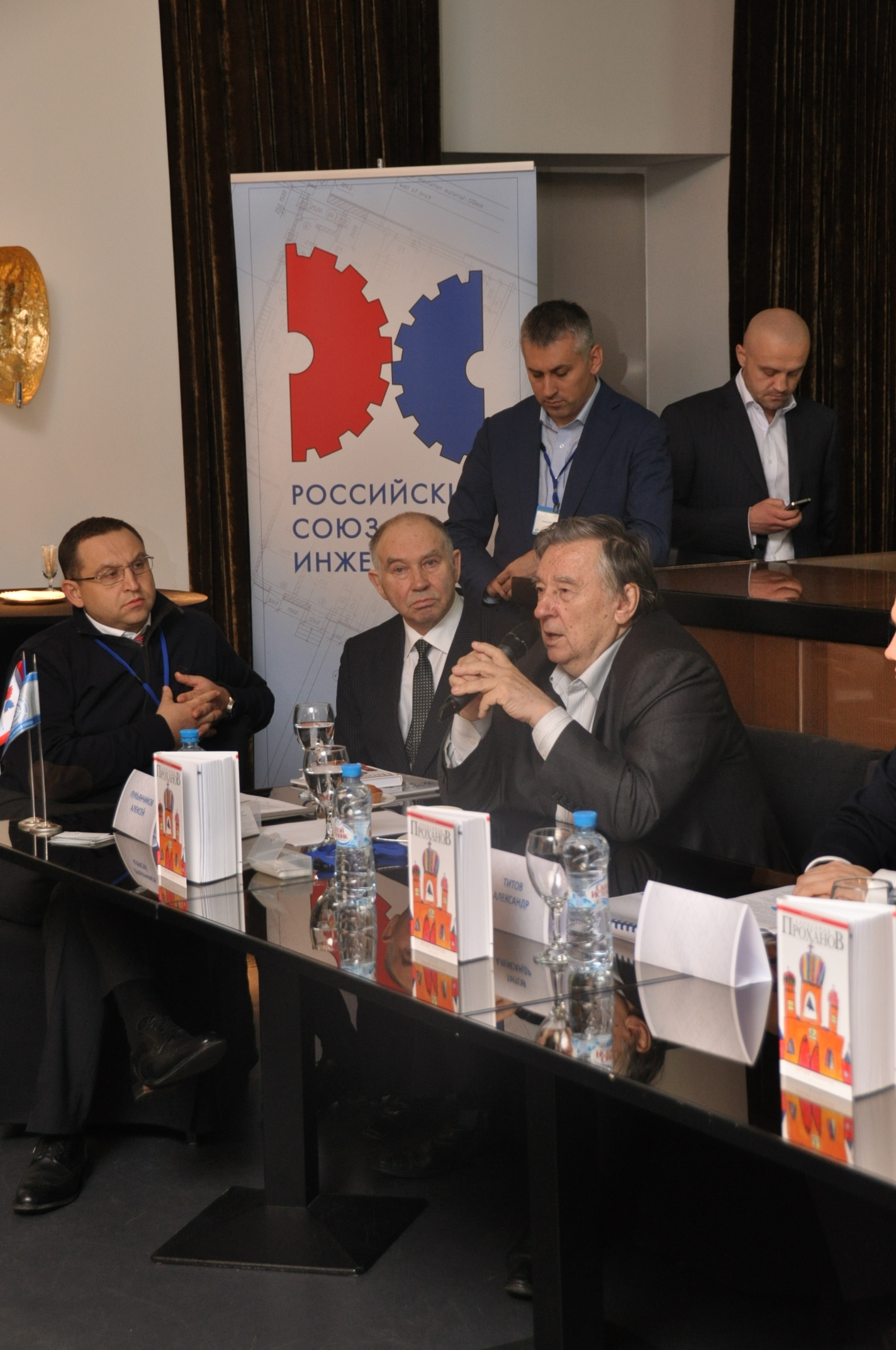 A.A. Prokhanov speaking at a seminar